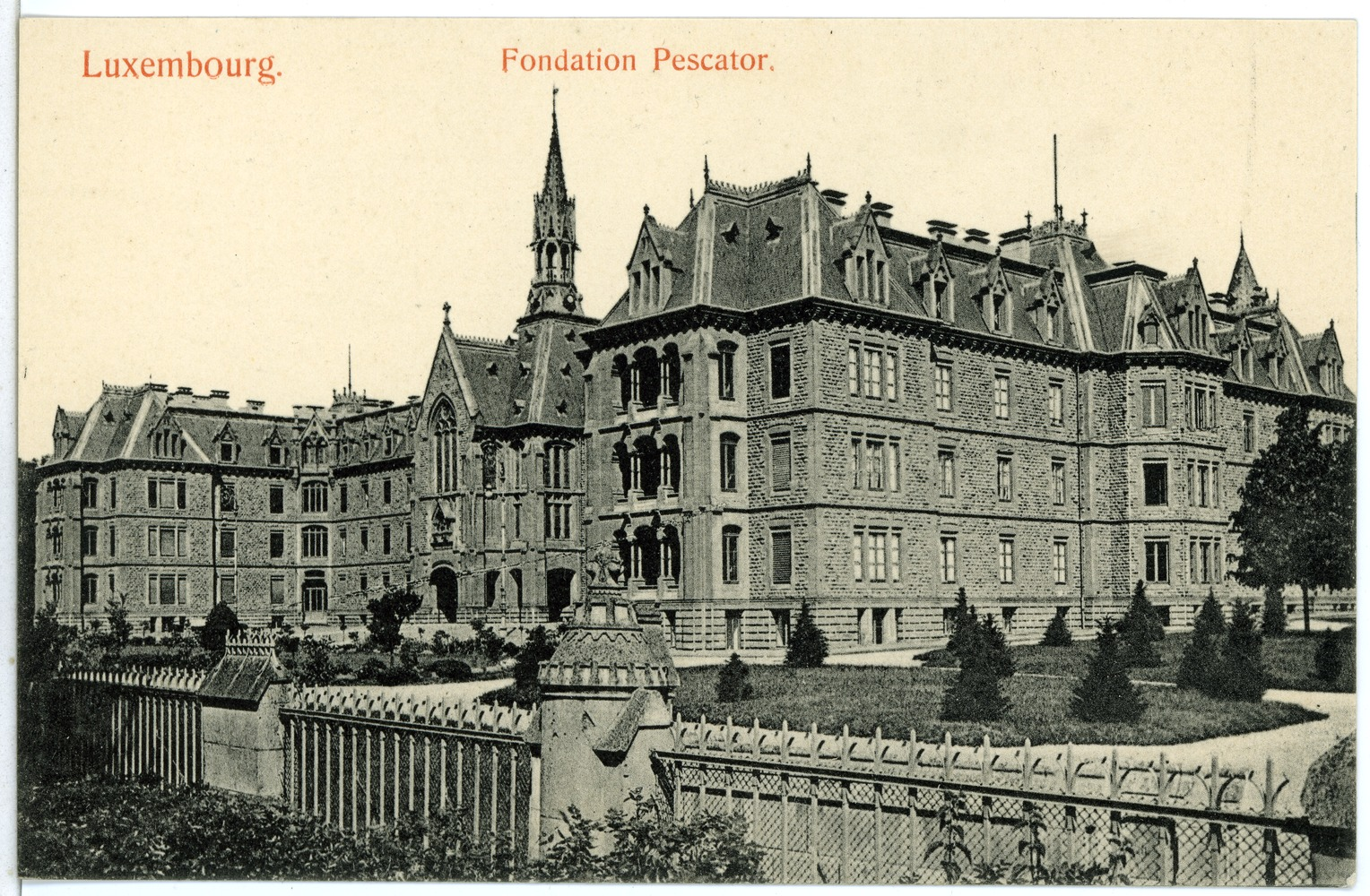 This postcard is from publisher Brück & Sohn in Meißen ( This postcard has a unique number 06569 and is available in a higher resolution at the publisher. This images was uploaded in a cooperation project between Wikipedians and the publisher.